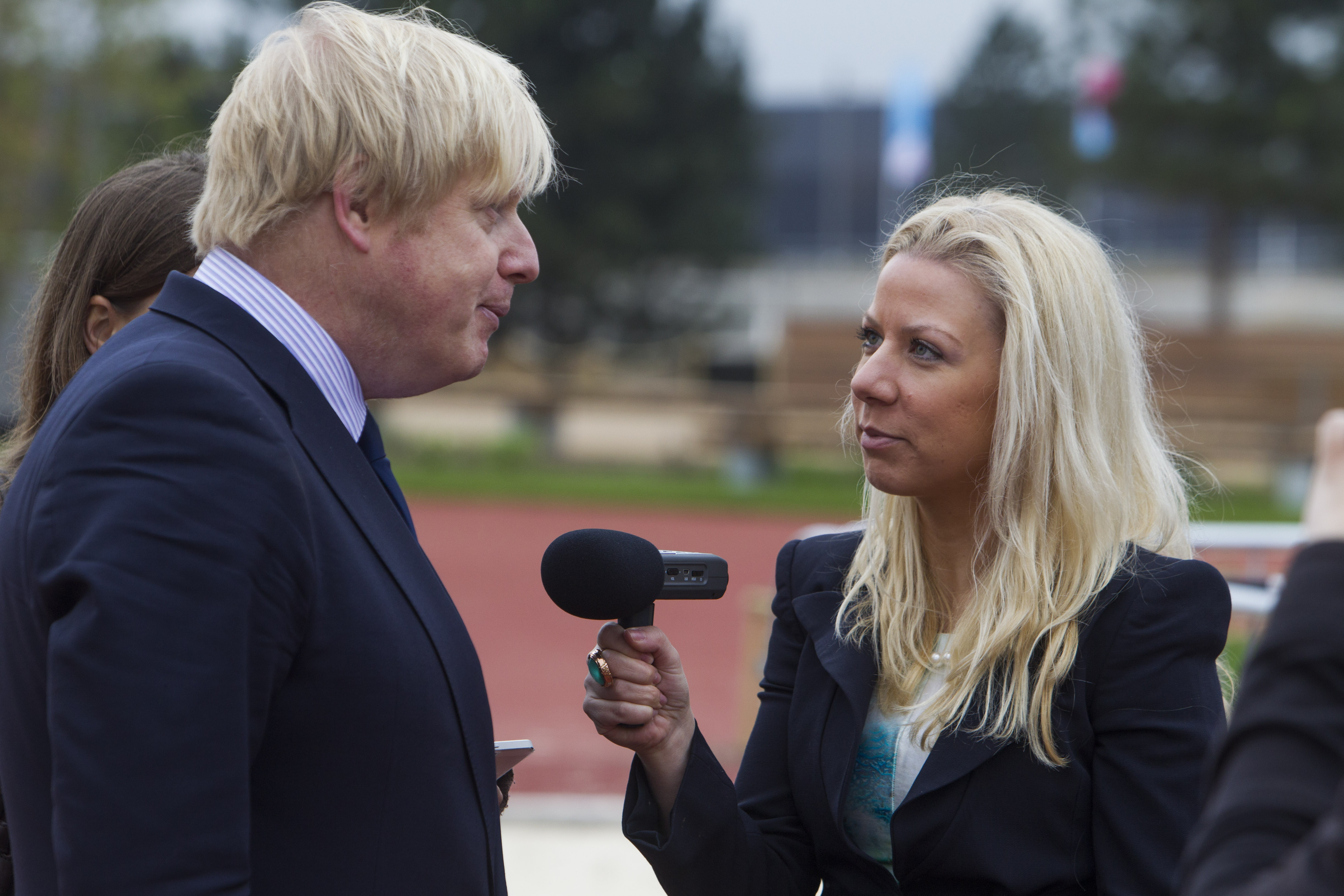 Reporter Anna Tsekouras interviews Boris Johnson, Mayor of London, at the re-opening of Queen Elizabeth Olympic Park